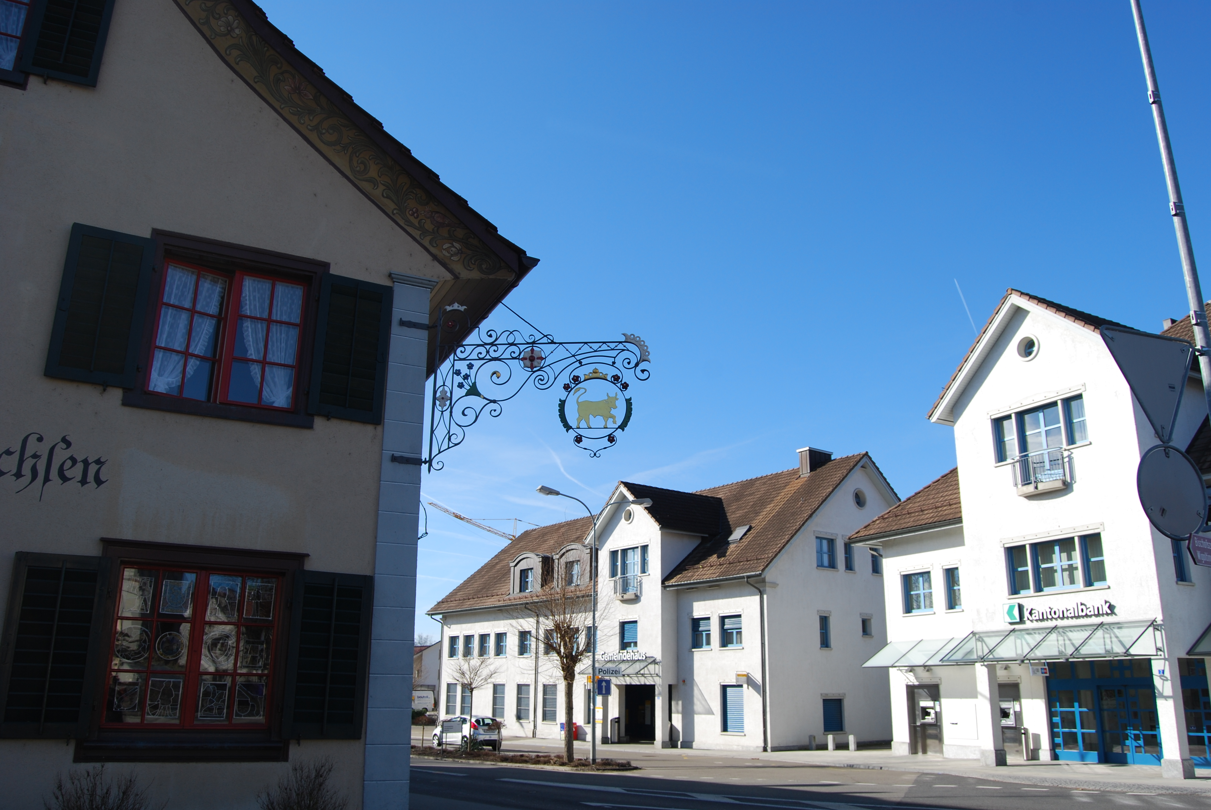 Municipal administration of Müllheim, canton of Thurgovia, SwitzerlandEsperanto: Komunuma domo de Müllheim, Kantono Turgovio, Svislando